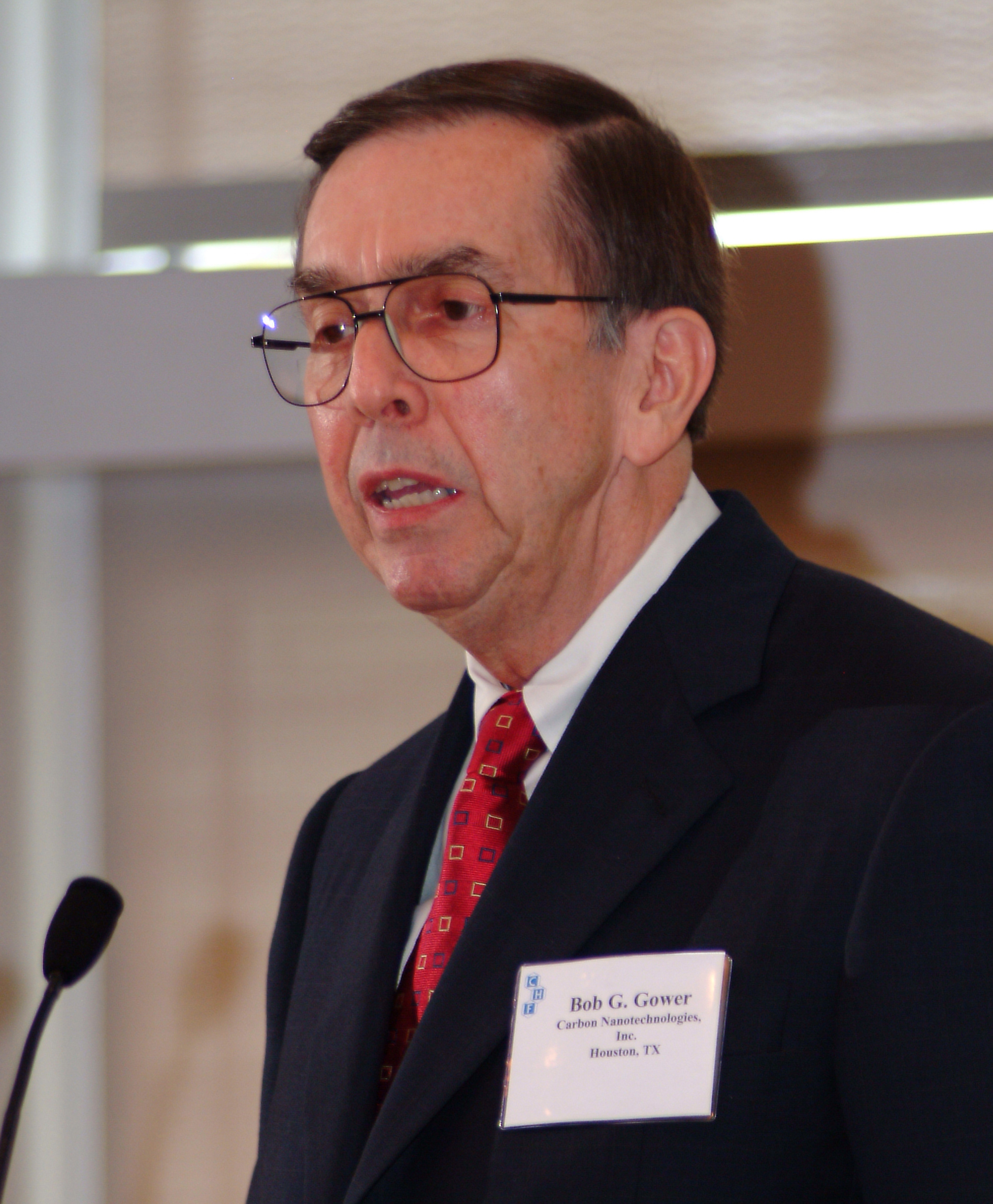 Photograph of Bob G. Gower, former CEO of Lyondell Petrochemical Company and co-founder of Carbon Nanotechnologies Inc., at Innovation Day, 14 September 2004, at the Chemical Heritage Foundation, Philadelphia, PA, USA.